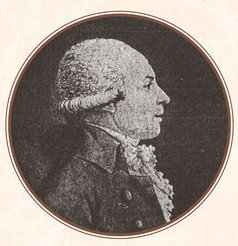 Portrait of Gadso Coopmans by Edme Quenedey